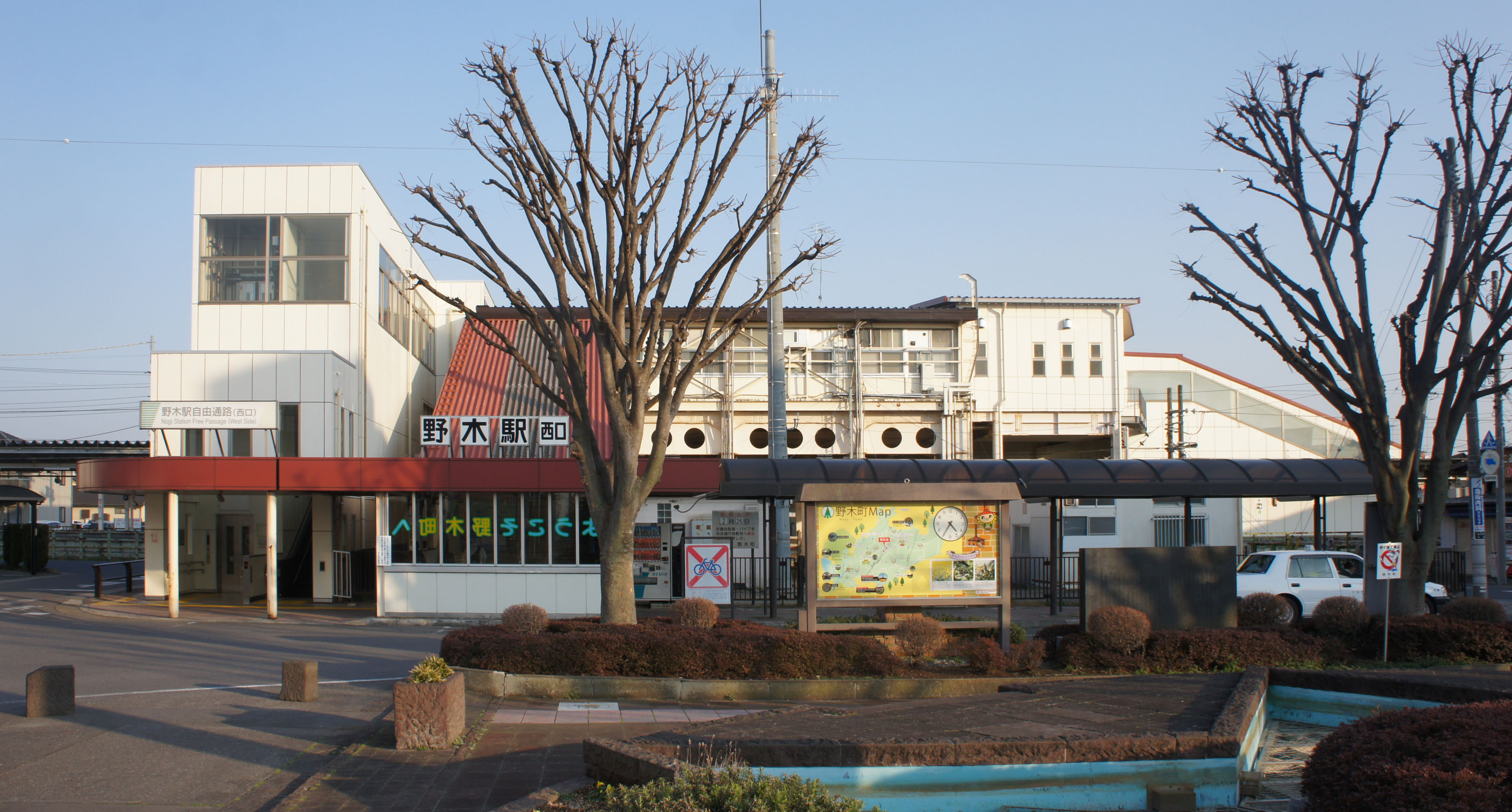 West Exit of JR Tohoku-Main-Line (Utsunomiya-Line) Nogi Station Sony NEX-3